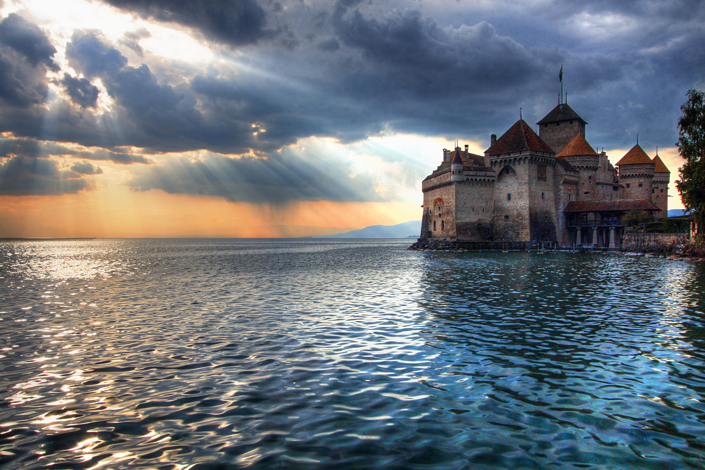 The Sun Sets on Château de Chillon while a storm brews over Lausanne